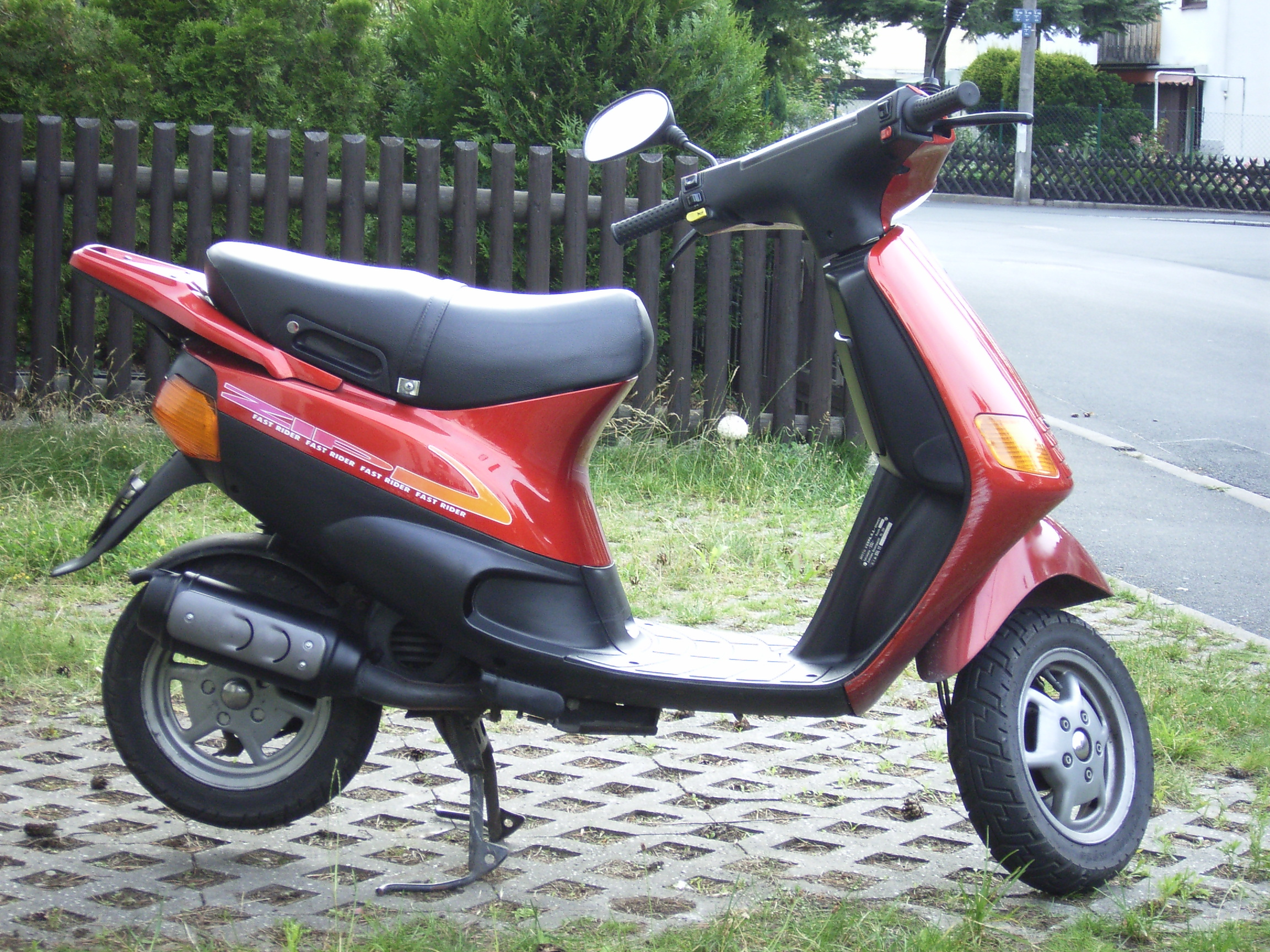 Piaggio Model Zip 1996